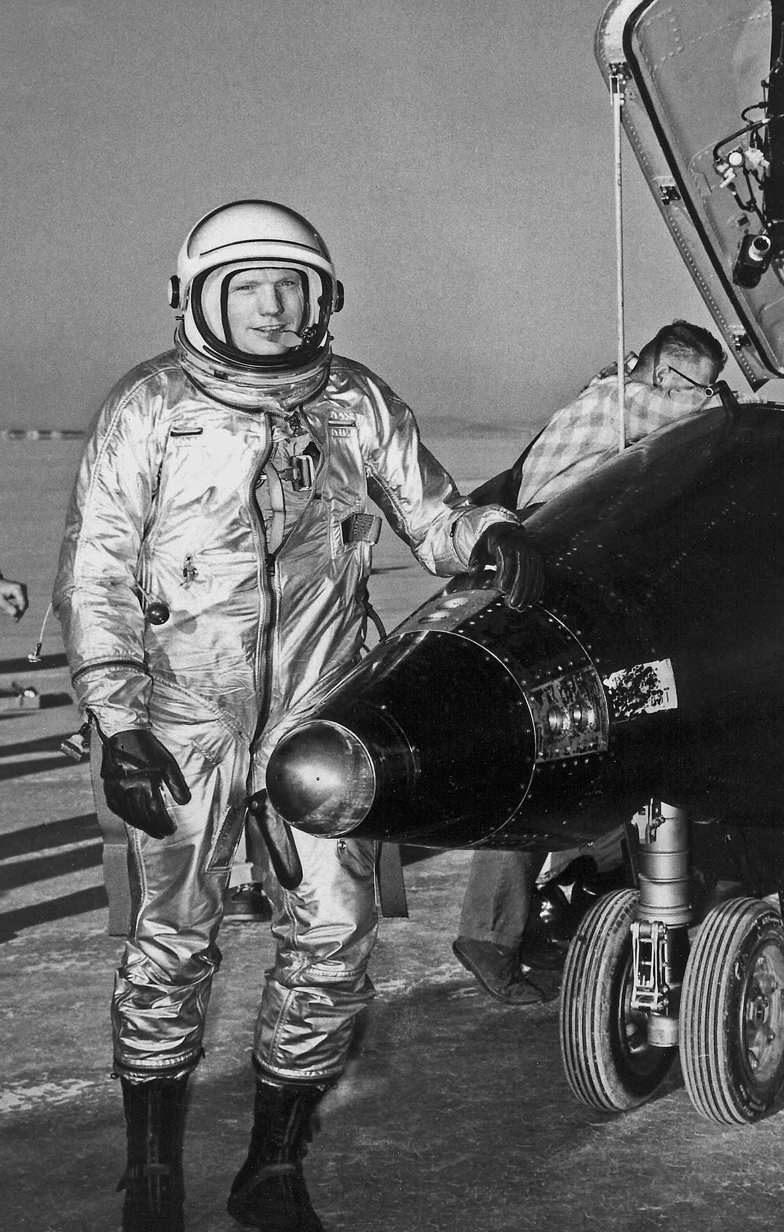 NASA test pilot Neil Armstrong is seen here next to the X-15 ship #1 (56-6670) after a research flight. The X-15 was a rocket-powered aircraft 50 feet long with a wingspan of 22 feet. It was a missile- shaped vehicle with an unusual wedge-shaped vertical tail, thin stubby wings, and unique side fairings that extended along the side of the fuselage.